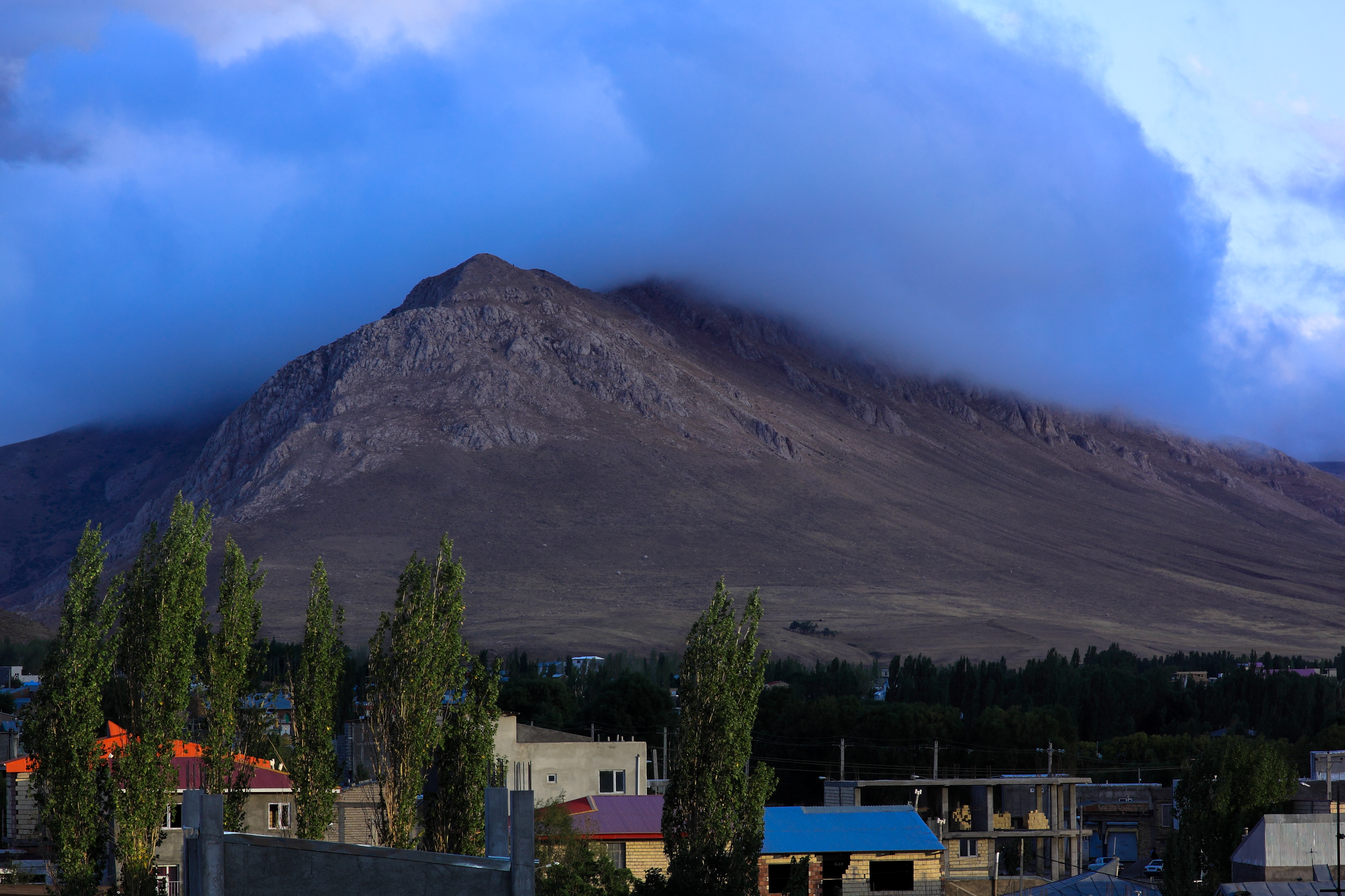 Khalkhal, a city in Azarbayejan Province of Persia (Iran) in 2013 - Photo by Payam Jahangiry